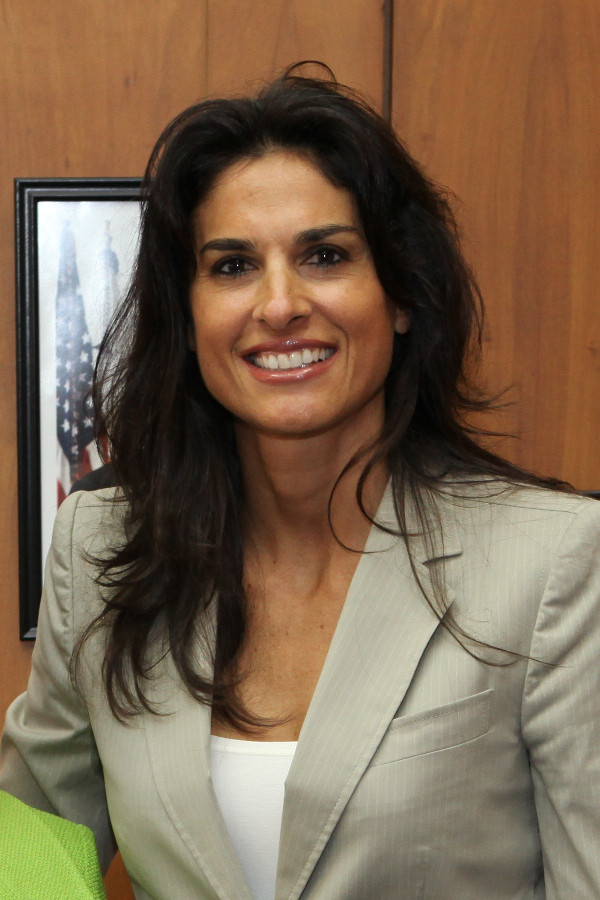 Argentine tennis players Gabriela Sabatini at the USA Embassy in Buenos Aires being awarded a certificate by the US Ambassador Vilma Martinez for her victory in the 1990 US Open